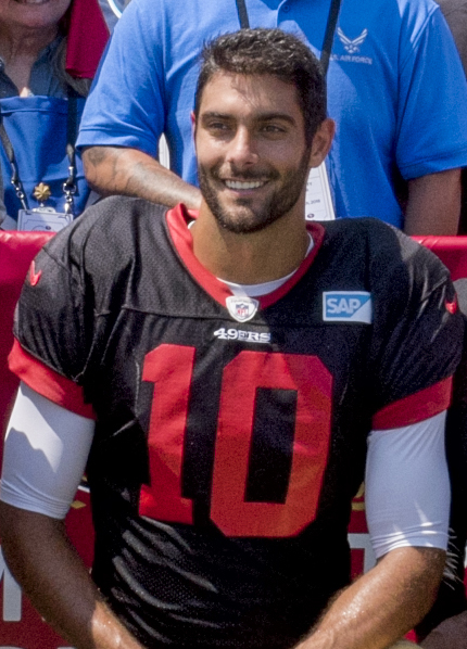 The 49ers organization invited military service members from the local area to observe their training camp during a military appreciation day at their training facility in Santa Clara Calif., Aug. 12, 2018.